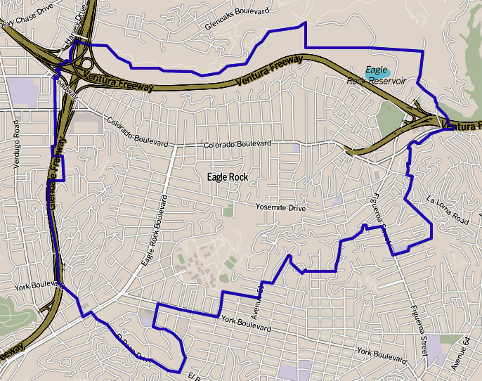 Map of Eagle Rock, California, as delineated by the Los Angeles Times Other information Boundary map as drawn by the Los Angeles Times on a CC-by-SA background. Note at bottom right of map on the L.A. Times website noted above says "CC-by-SA" (which gives permission to use the map). There is a link there to which explains the meaning thereof. The base map is credited to The Times spells all this out at